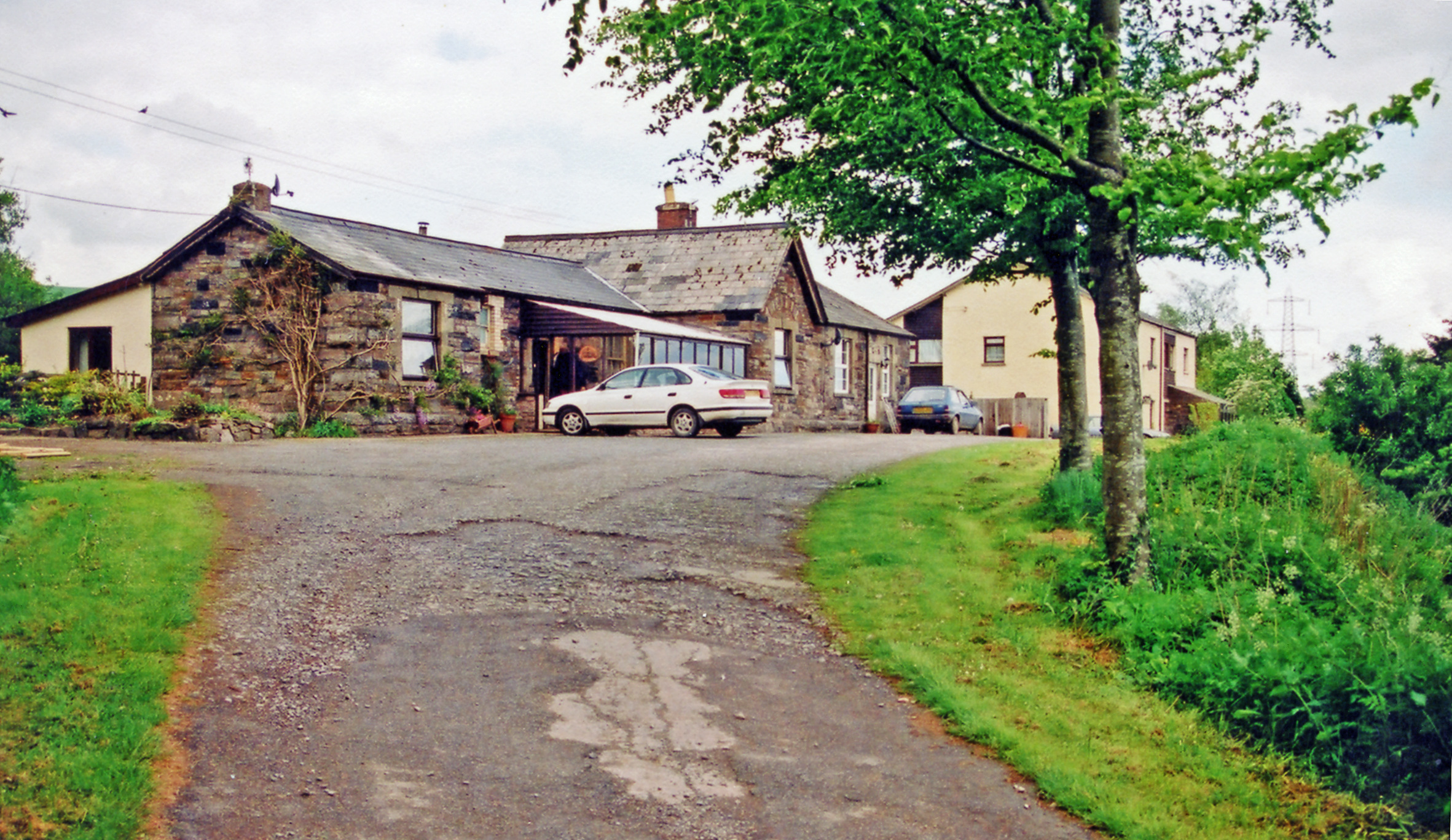 Morebath: former station, 2001. View NE on station approach road, towards Taunton: ex-GWR (Taunton) - Norton Fitzwarren - Barnstaple - (Ilfracombe) line, closed entirely 3/10/66.